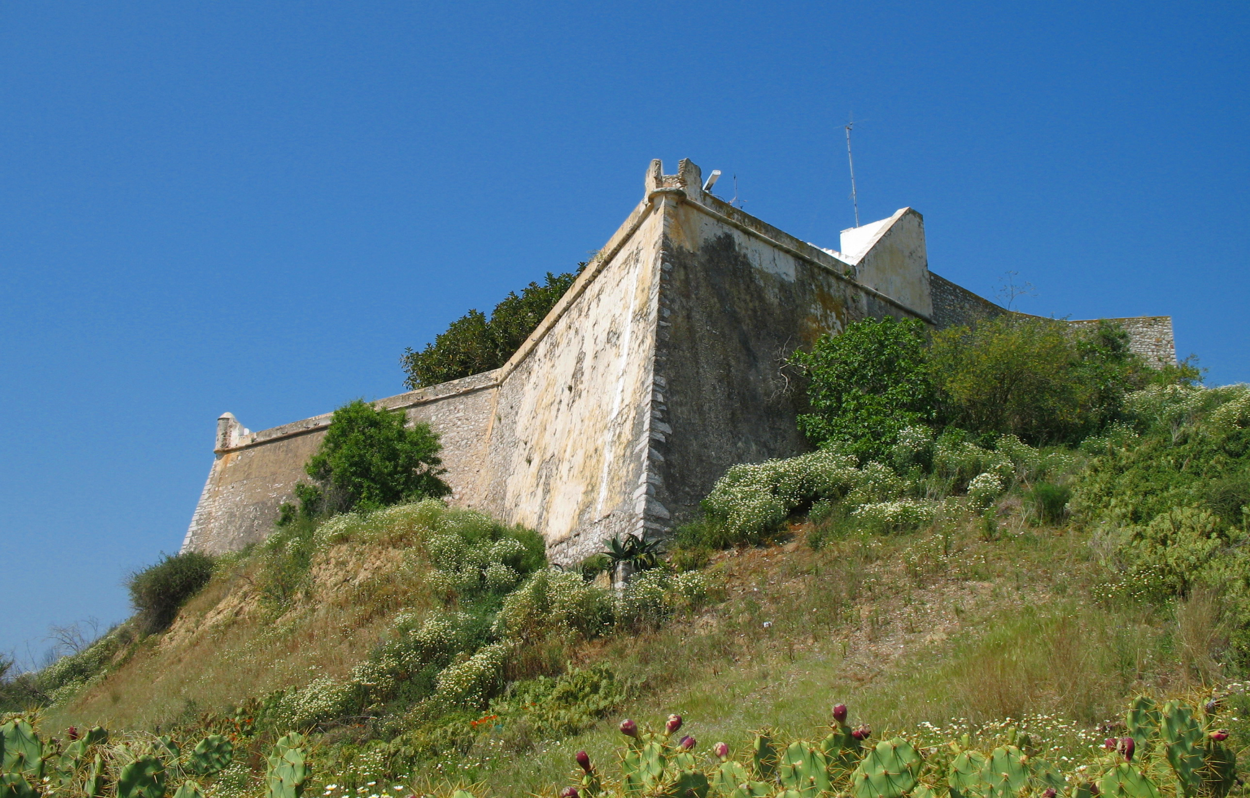 Cacela Velha (Algarve, Portugal): old fortress